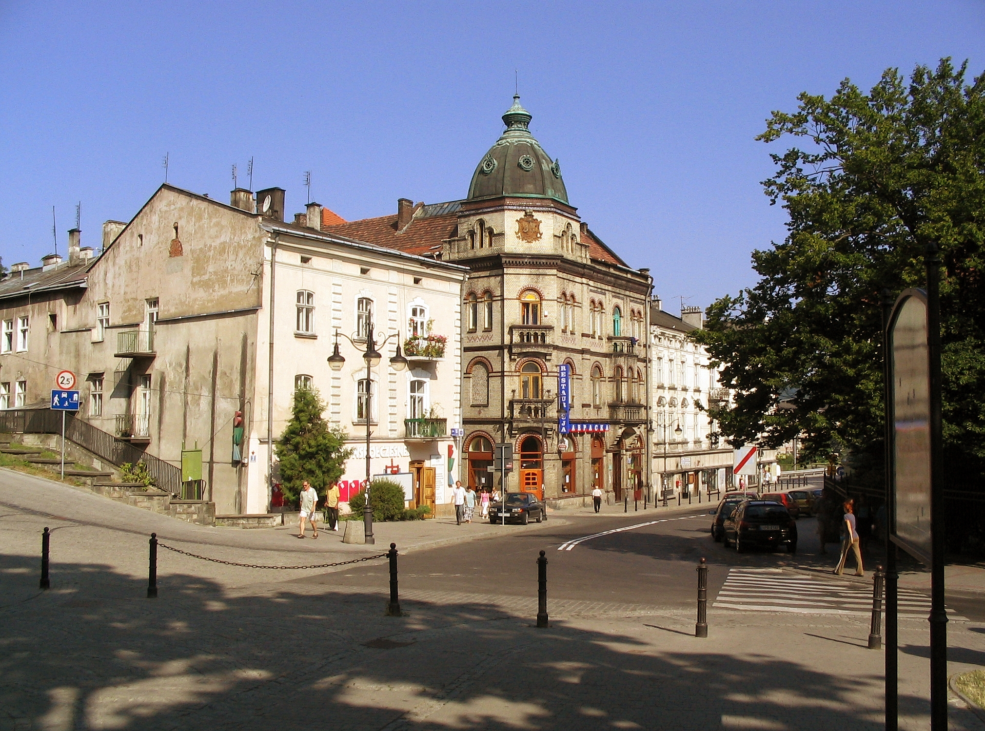 Tadeusz Kościuszko Street in Przemyśl, Poland. Author: Goku122